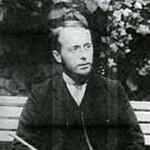 G Van Strydonck